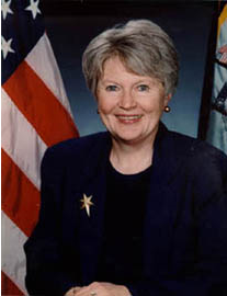 Carolyn H. Becraft